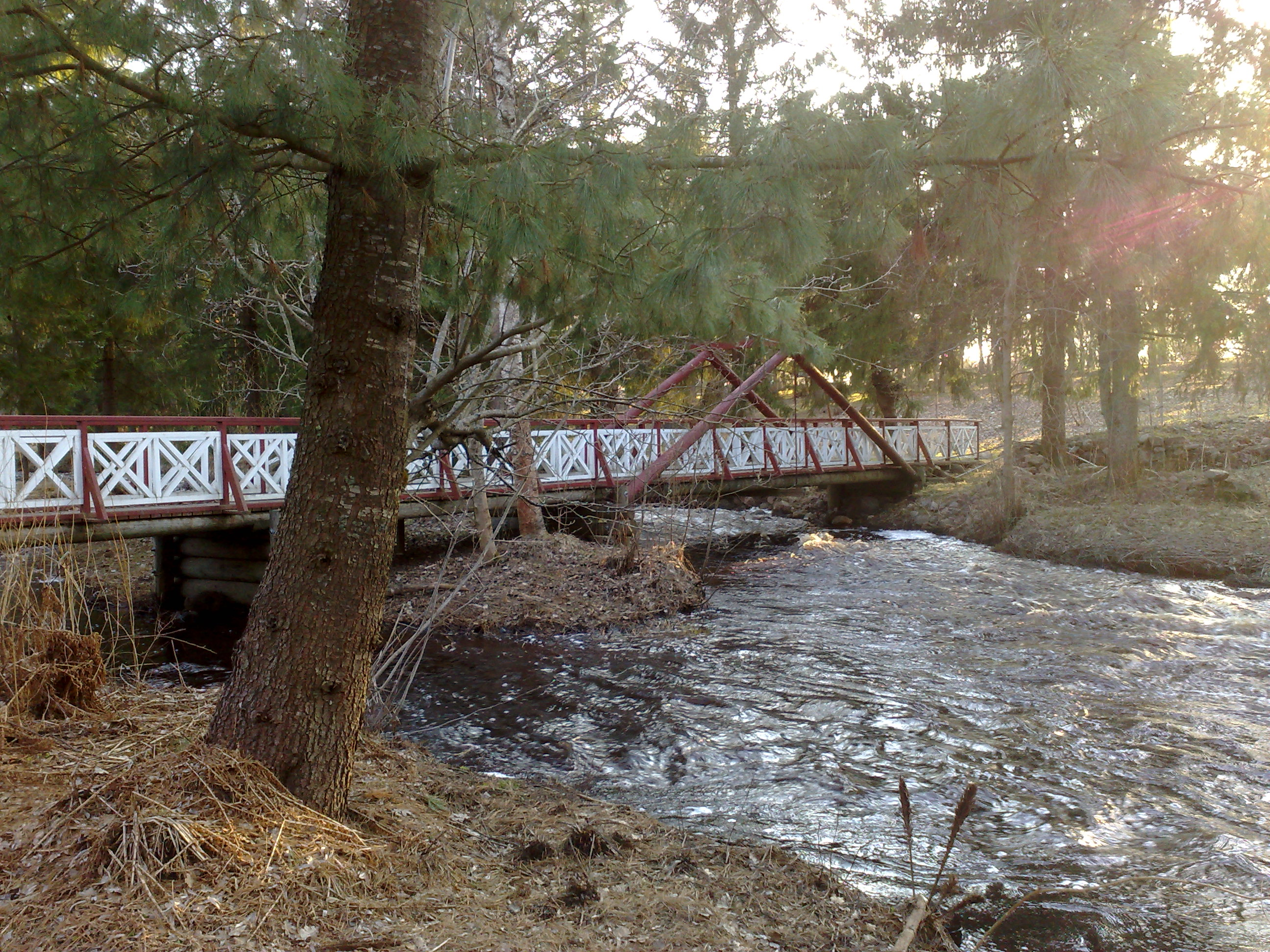 Alakestilä, arboretum, Liminka, Finland